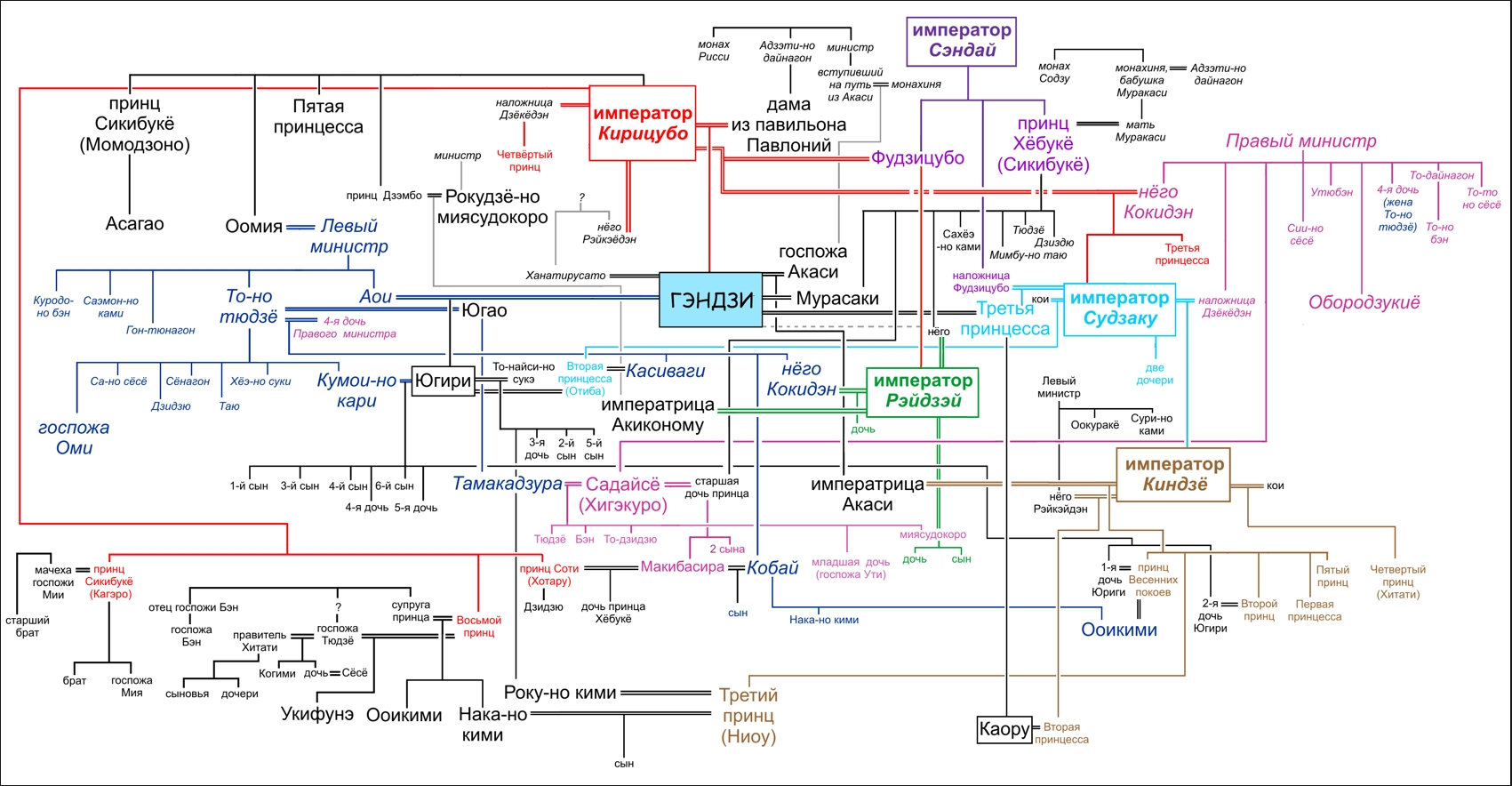 Genealogy of The Tale of Genji in Russian.